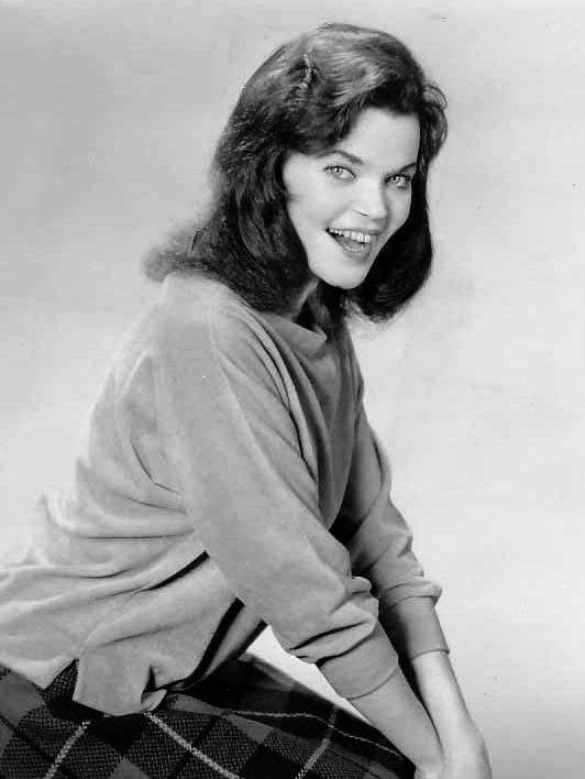 Publicity photo of Eileen Brennan, 1963